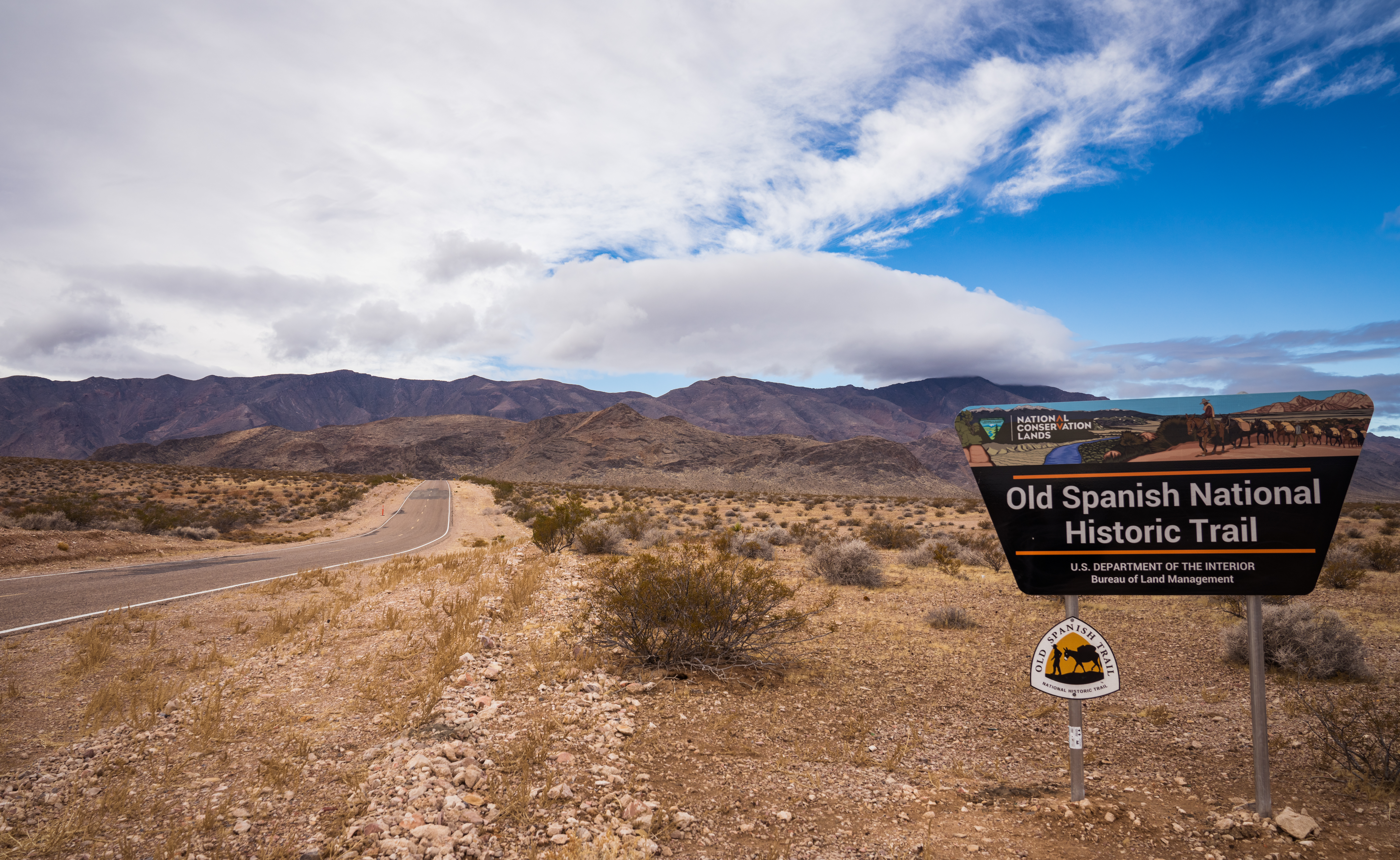 The Old Spanish National Historic Trail recognizes the land route traveled by traders from 19th-century Mexico - today's New Mexico - and California. From 1829 to 1848, this trail was the shortest-known route from Santa Fe to Los Angeles, through red-rock mesas, below snow-capped peaks, and fording untamed rivers, following a loose network of Native American footpaths across the Colorado Plateau and Mojave Desert. The Old Spanish National Historic Trail is composed of three main routes: the Main Route, the Armijo Route, and the North Branch. Use would depend on peril, weather, or simple opportunistic stops. Mules were the highest-valued pack animals, as they had incredible strength and endurance, fared better than horses where water was scarce and forage poor, and recovered more rapidly after periods of hardship. Photo by Jesse Pluim, BLM